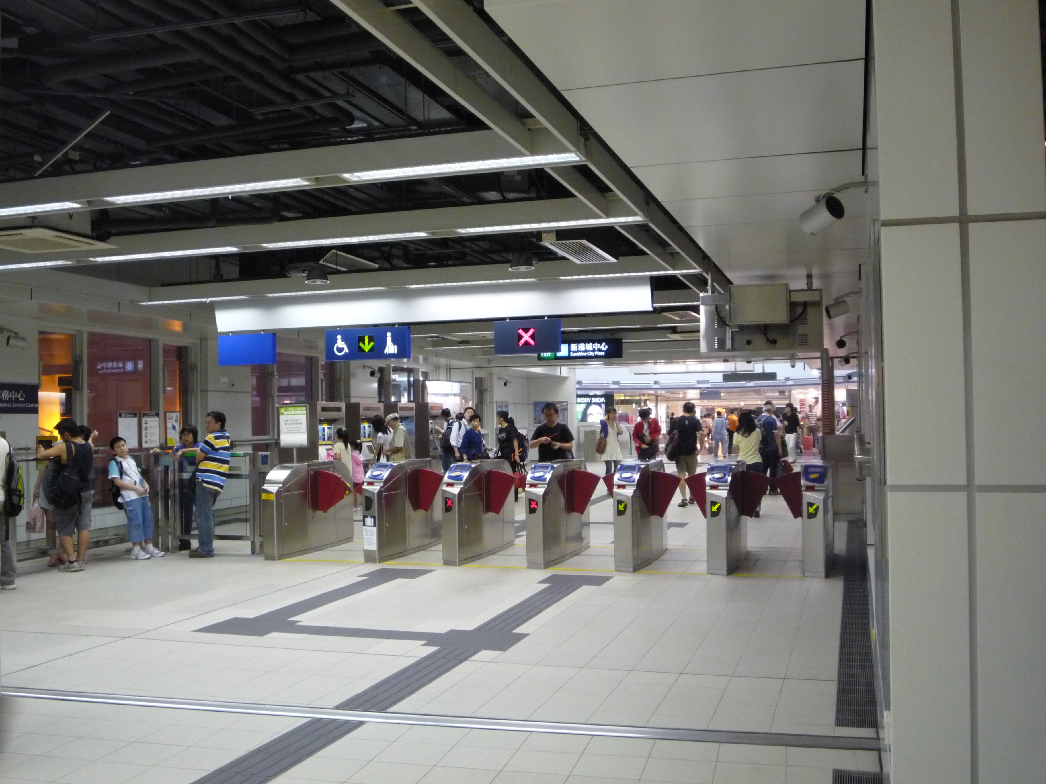 MTR Ma On Shan Station Exit B concourse